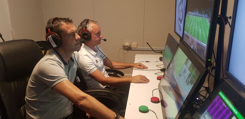 SAUDI PRO LEAGUE Thursday 29 August 2019 Al-Faiha'a Al-Majma'ah - Al-Hazm Ar-Rass Referee: Damir Skomina (SVN) Assistant Referee 1: Jure Praprotnik (SVN) Assistant Referee 2: Robert Vukan (SVN) Fourth Official: Rade Obrenovič (SVN) Video Assistant Referee: Viktor Kassai (HUN) Assistant Video Assistant Referee: Dalibor Đurđević (SRB)